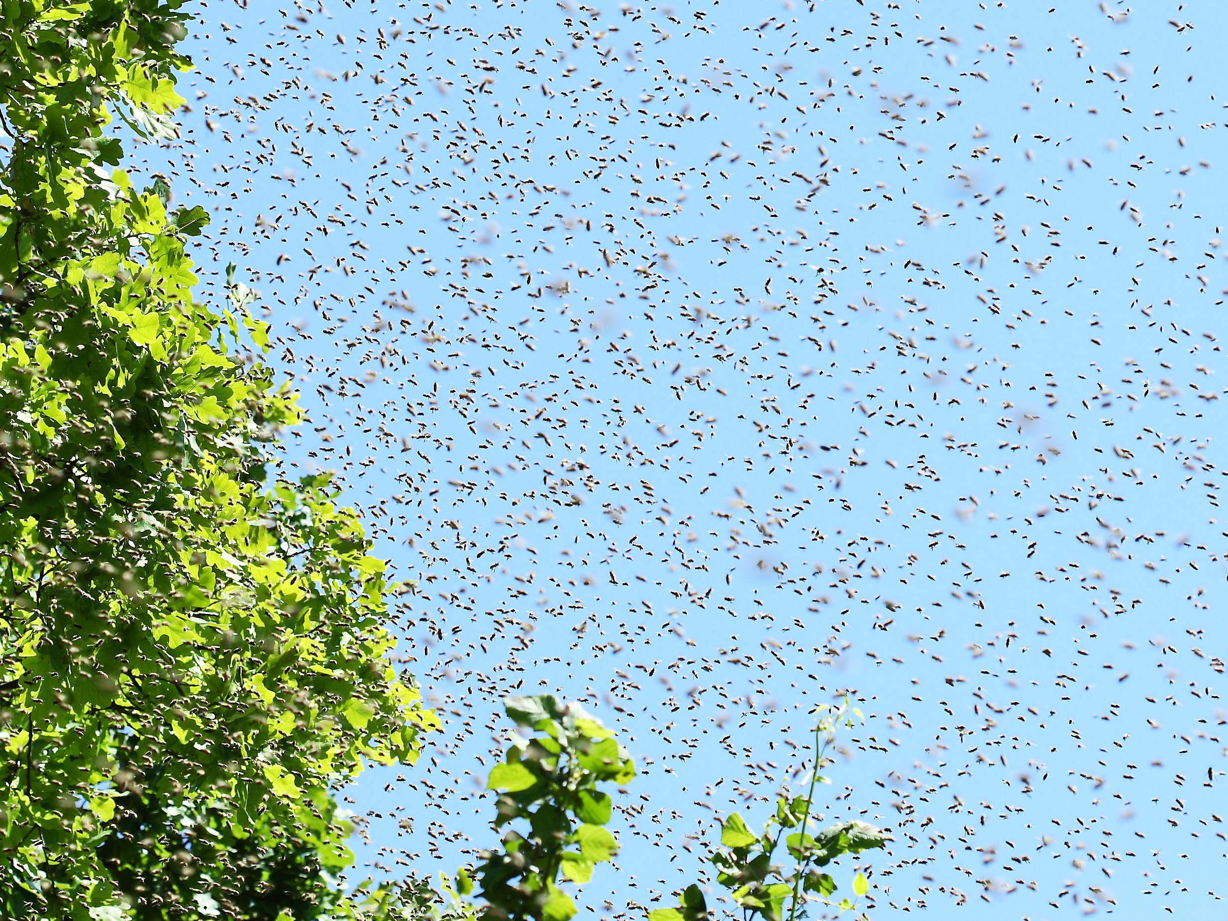 Swarm of bees in the air shortly before landing on a tree